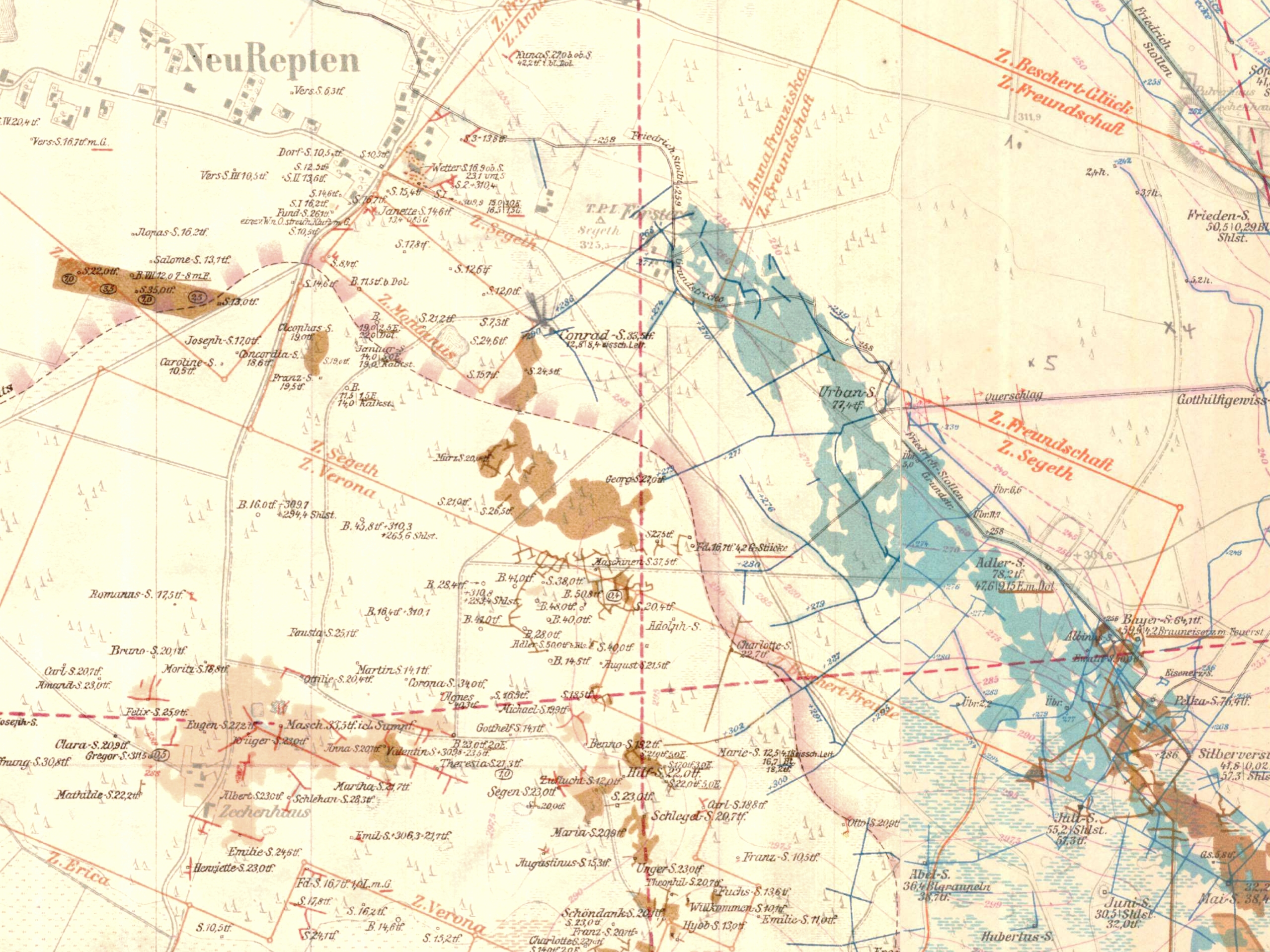 Field boundaries of zinc ore mine Segeth (pol. Segiet) near Neu Repten (now Repty Śląskie, part of Tarnowskie Góry, Poland), merged parts of two German geological maps.